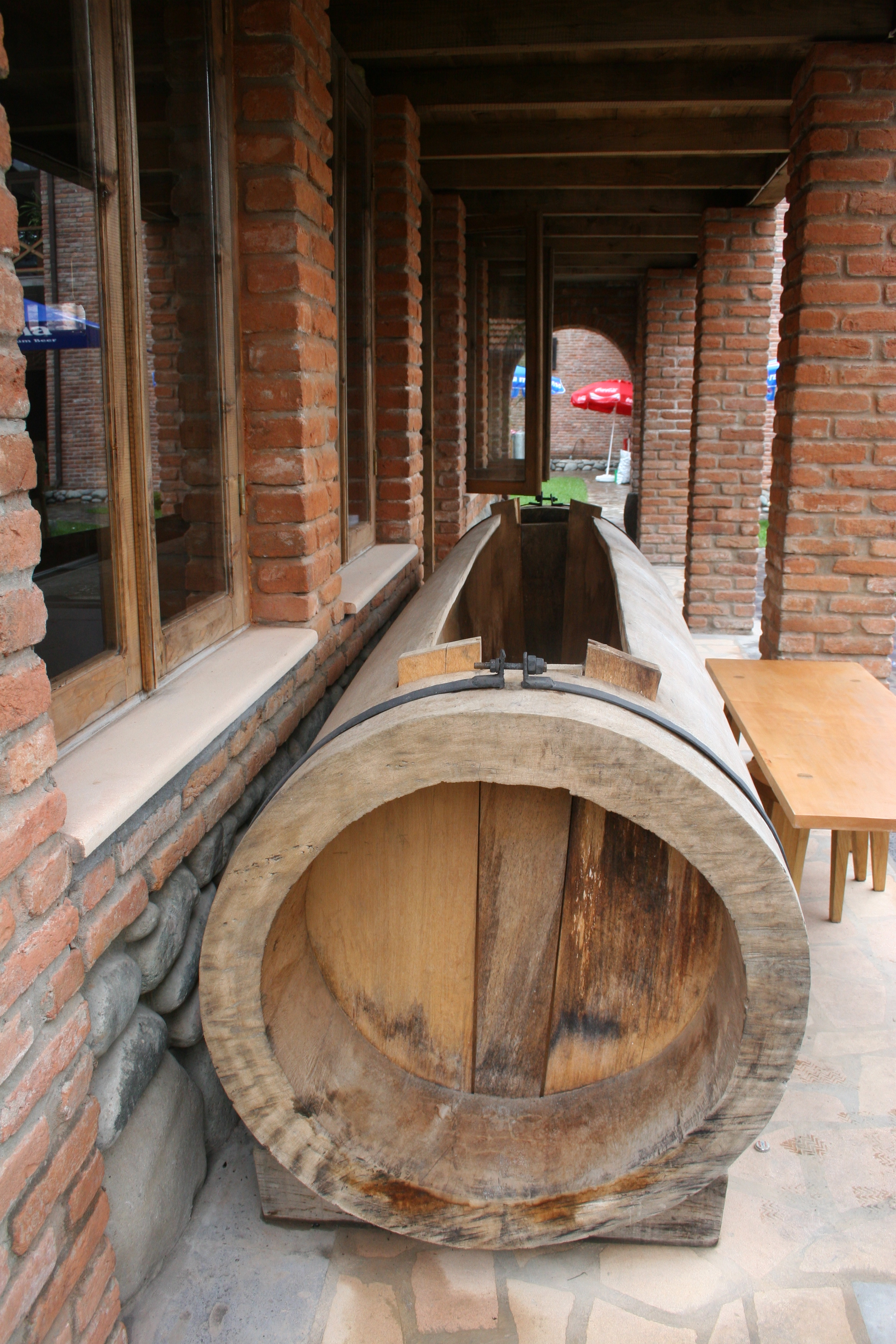 Sacnakheli - a traditional wine making accessory in Adjara, Georgia